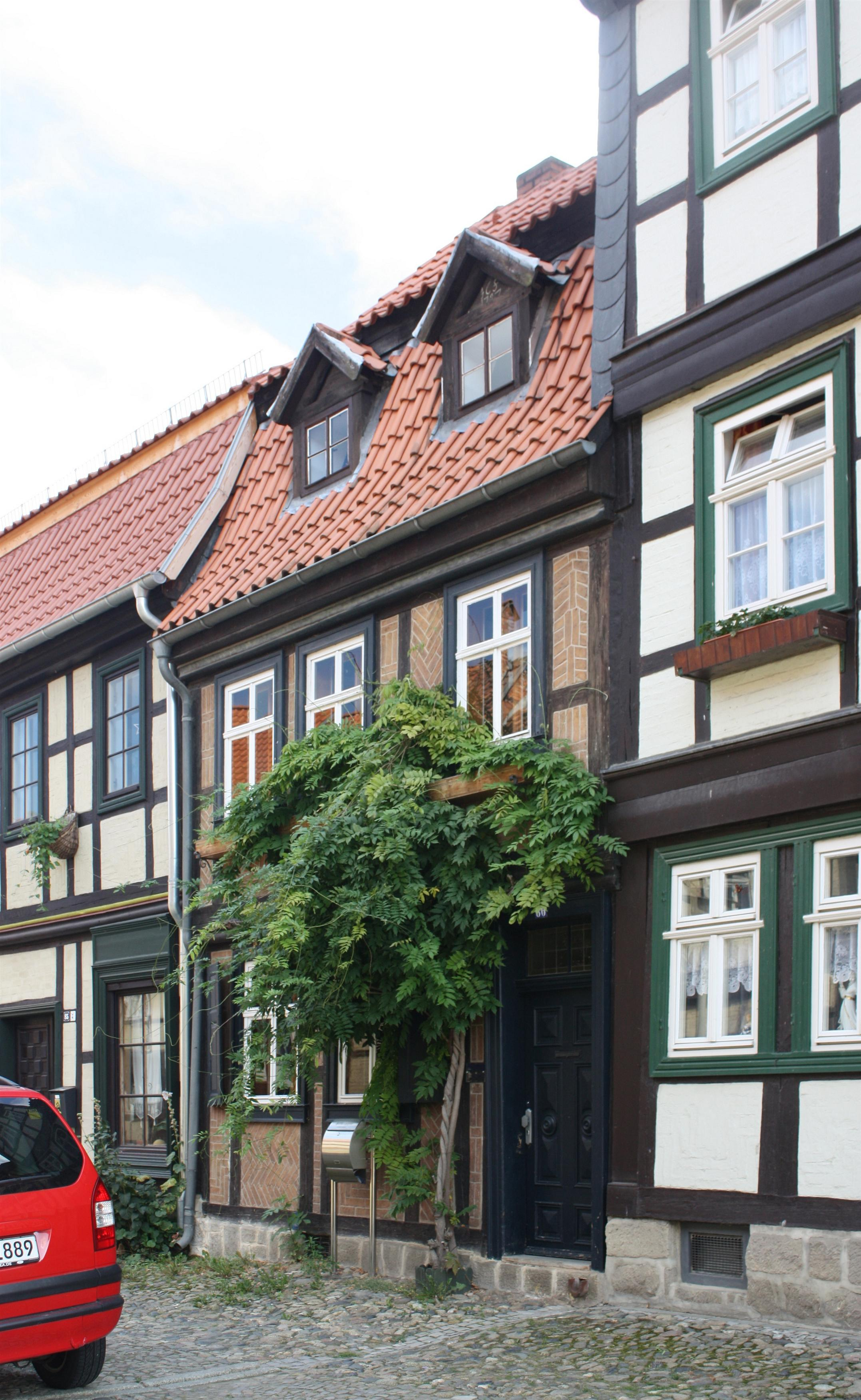 This is a photograph of an architectural monument.It is on the list of cultural monuments of Quedlinburg Augustinern 86 in Quedlinburg